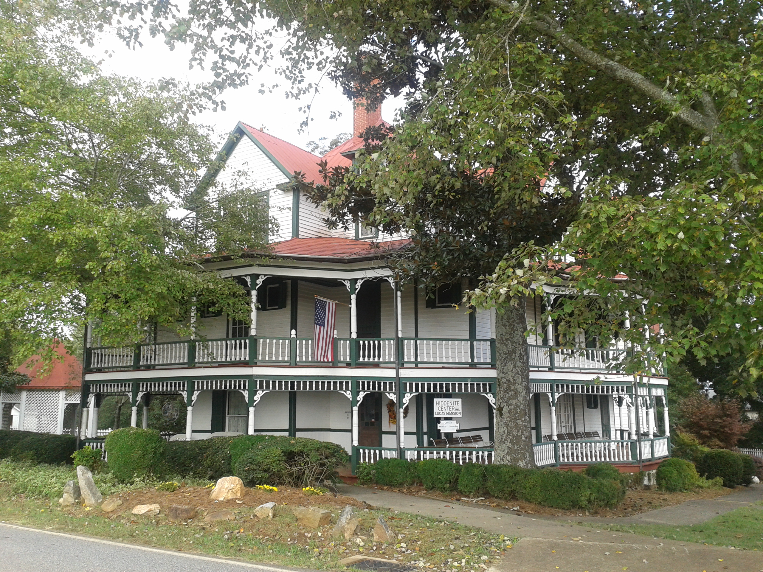 Lucas Mansion - today known as the Hiddenite Center. On the National Register of Historic Places in Hiddenite, North Carolina